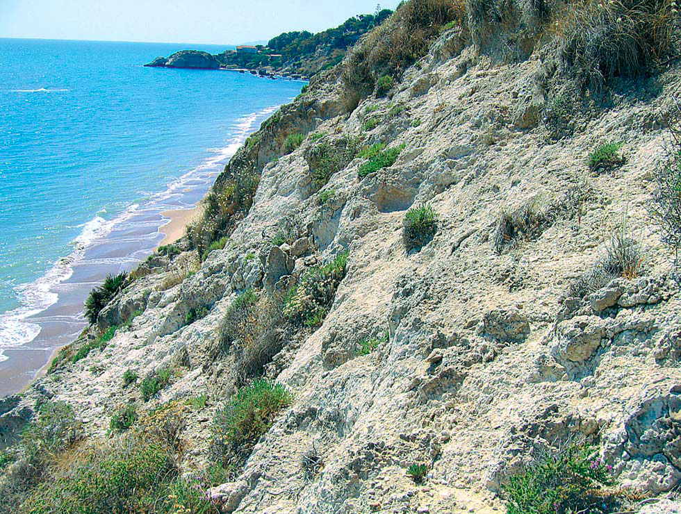 Habitat